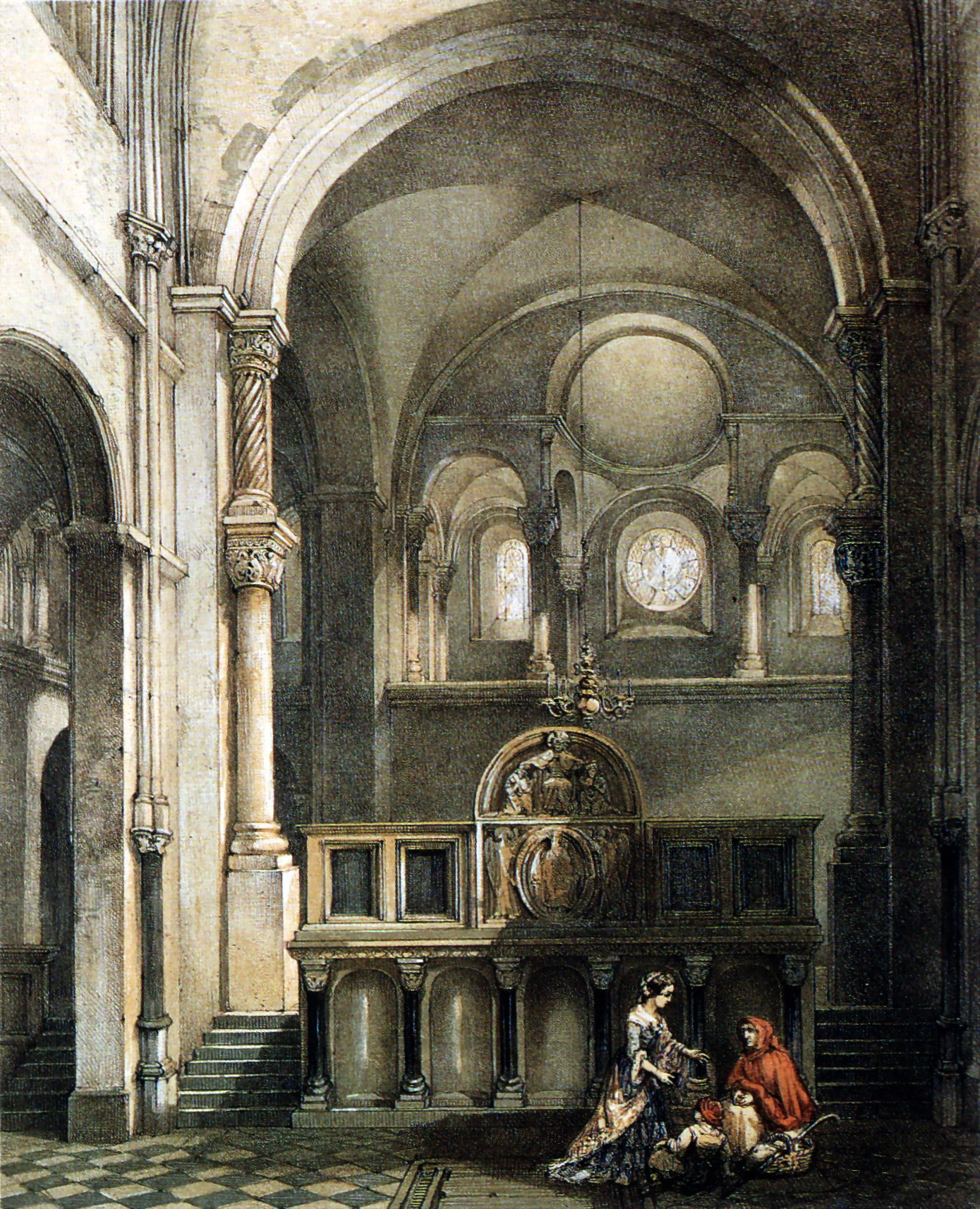 Reconstruction of the pre-19th-century interior of the Westwork of the Basilica of Saint Servatius, Maastricht, the Netherlands. Coloured drawing by Alexander Schaepkens, ca. 1830.